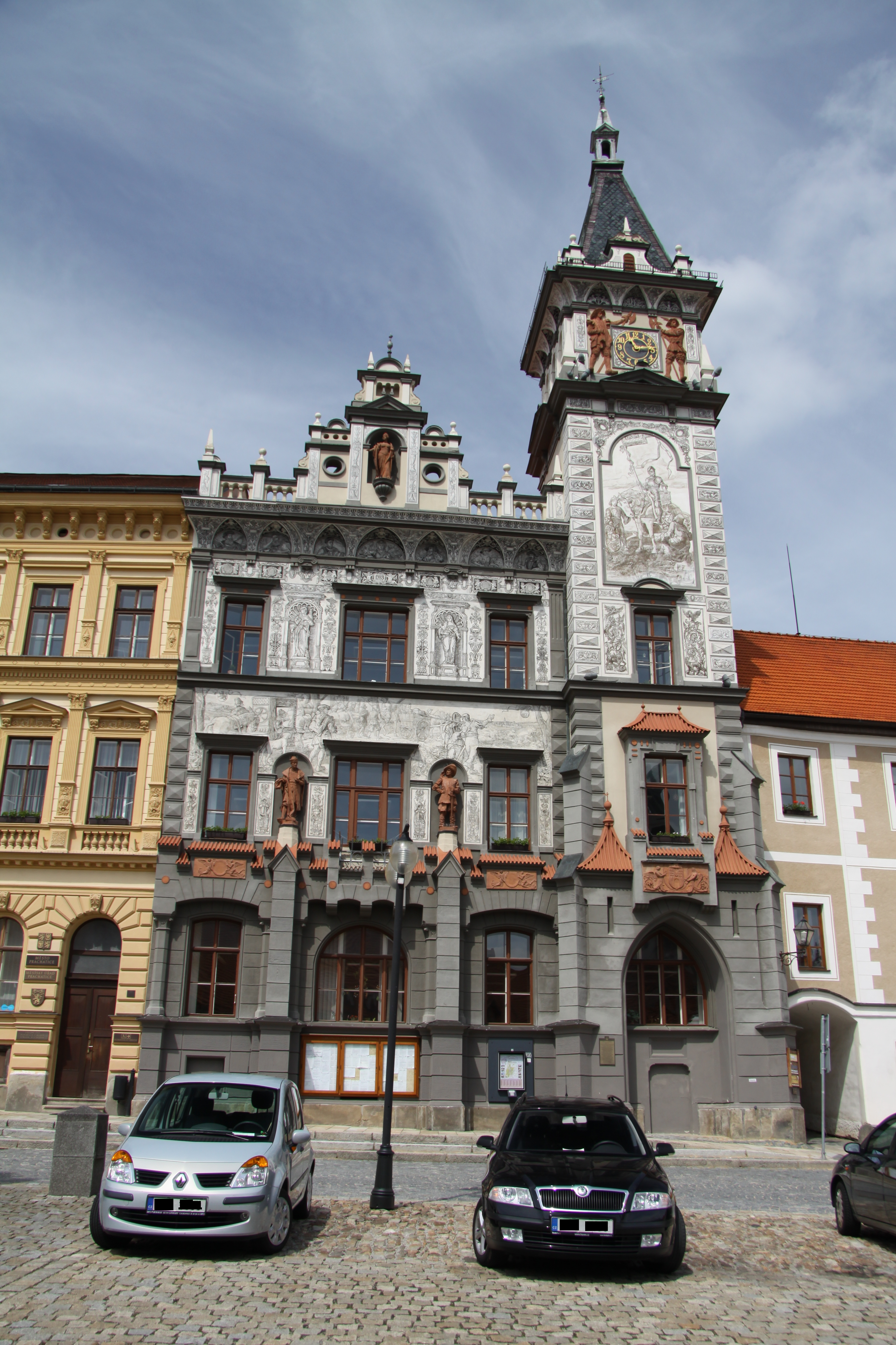 Town hall in Prachatice, Prachatice District, Czech Republic